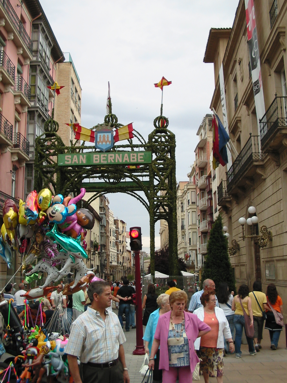 Portales Street during San Bernabé 2006 municipal festivity in Logroño, La Rioja (Spain). On the foreground, the traditional arch can be seen.